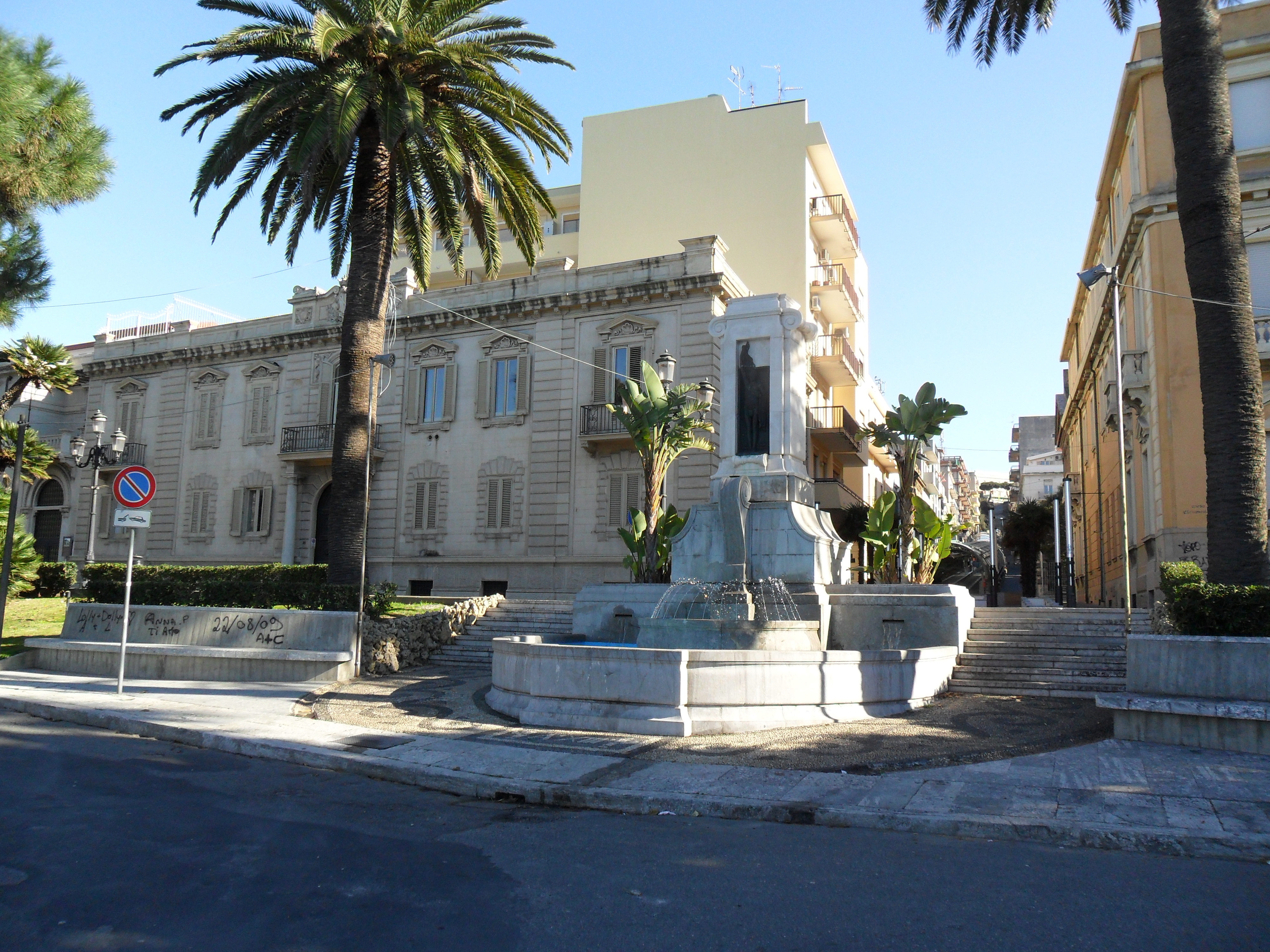 Fountain Reggio Calabria